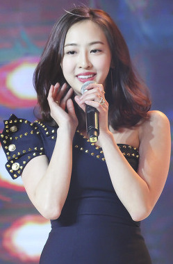 160417 D&S 20th Anniversary Ceremony